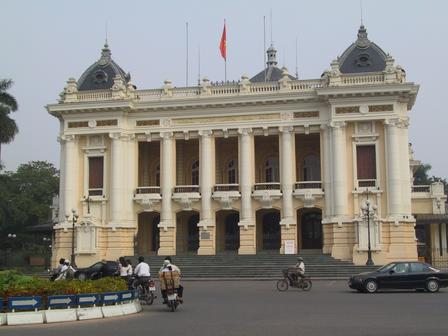 Hanoi operahouse, by Andrew Lih